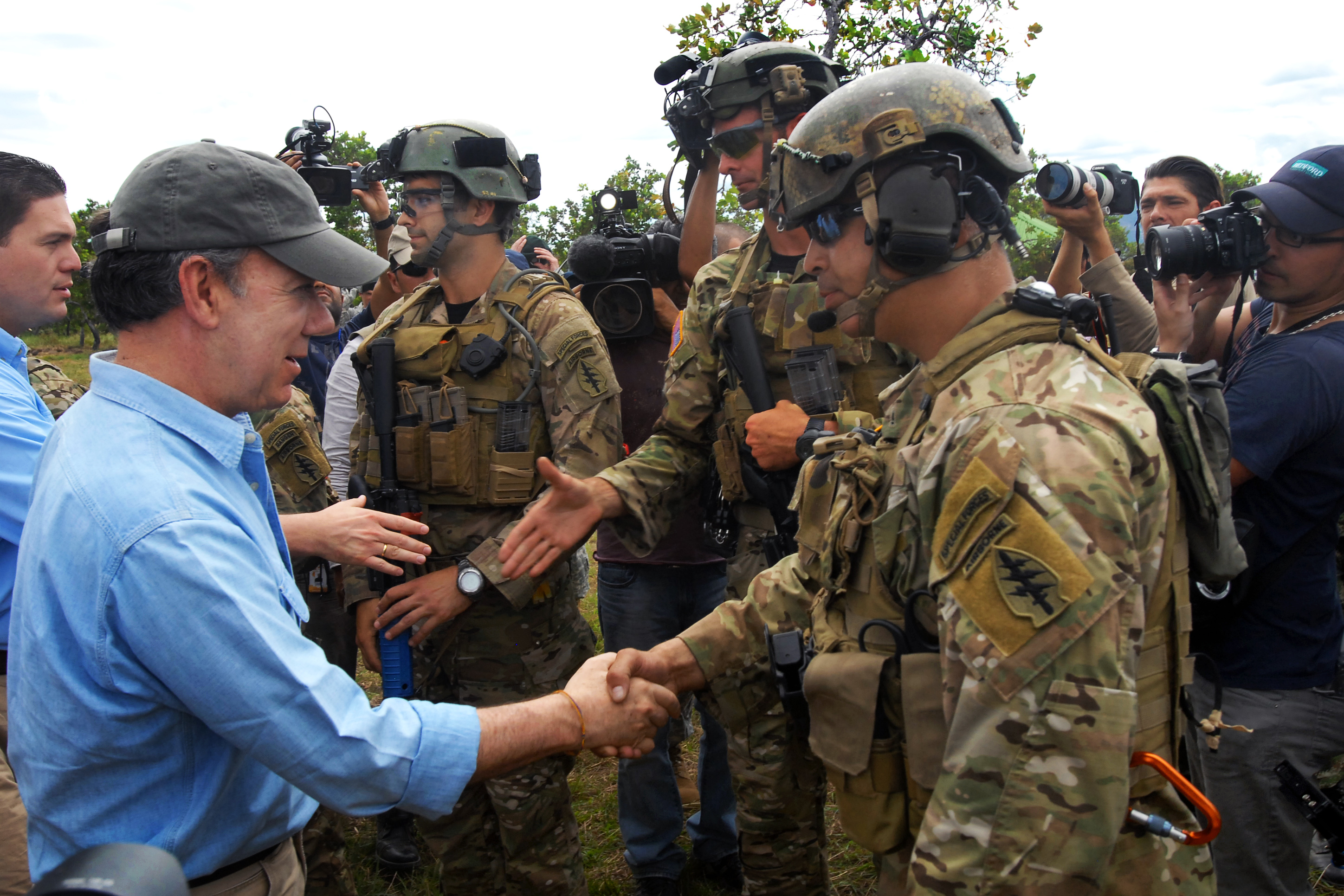 Colombian President Juan Manuel Santos meets with U.S. special operations members during a visit to the Fuerzas Comando 2012 at the Colombian National Training Center on Fort Tolemaida, Colombia, June 10, 2012.